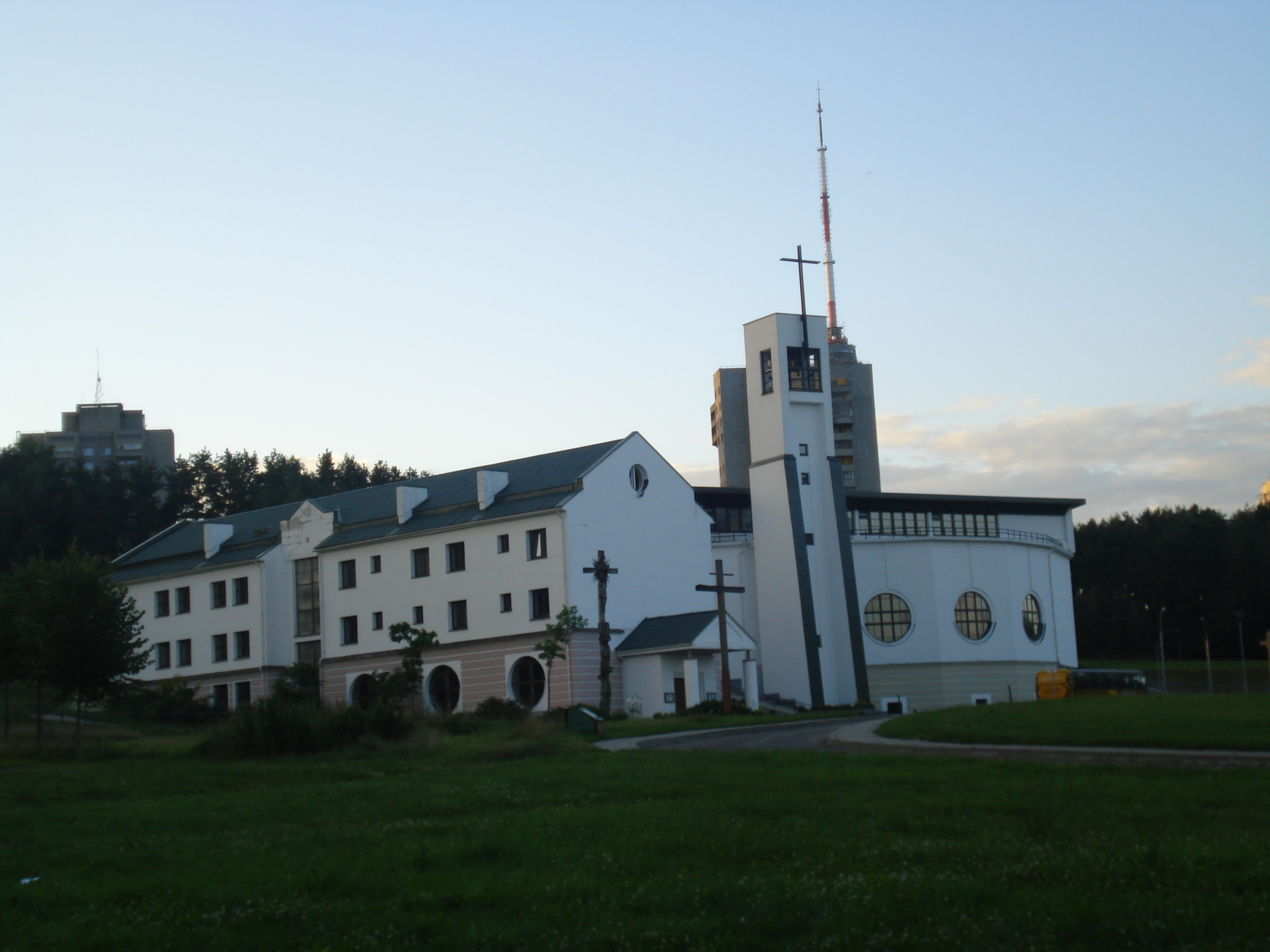 The church of St. John Bosco (Giovanni Melchiorre Bosco) in Vilnius. Vilniaus Šv. Jono Bosko bažnyčia. Erfurto g. 3. Architect prof. Vytautas Edmundas Čekanauskas. 2001